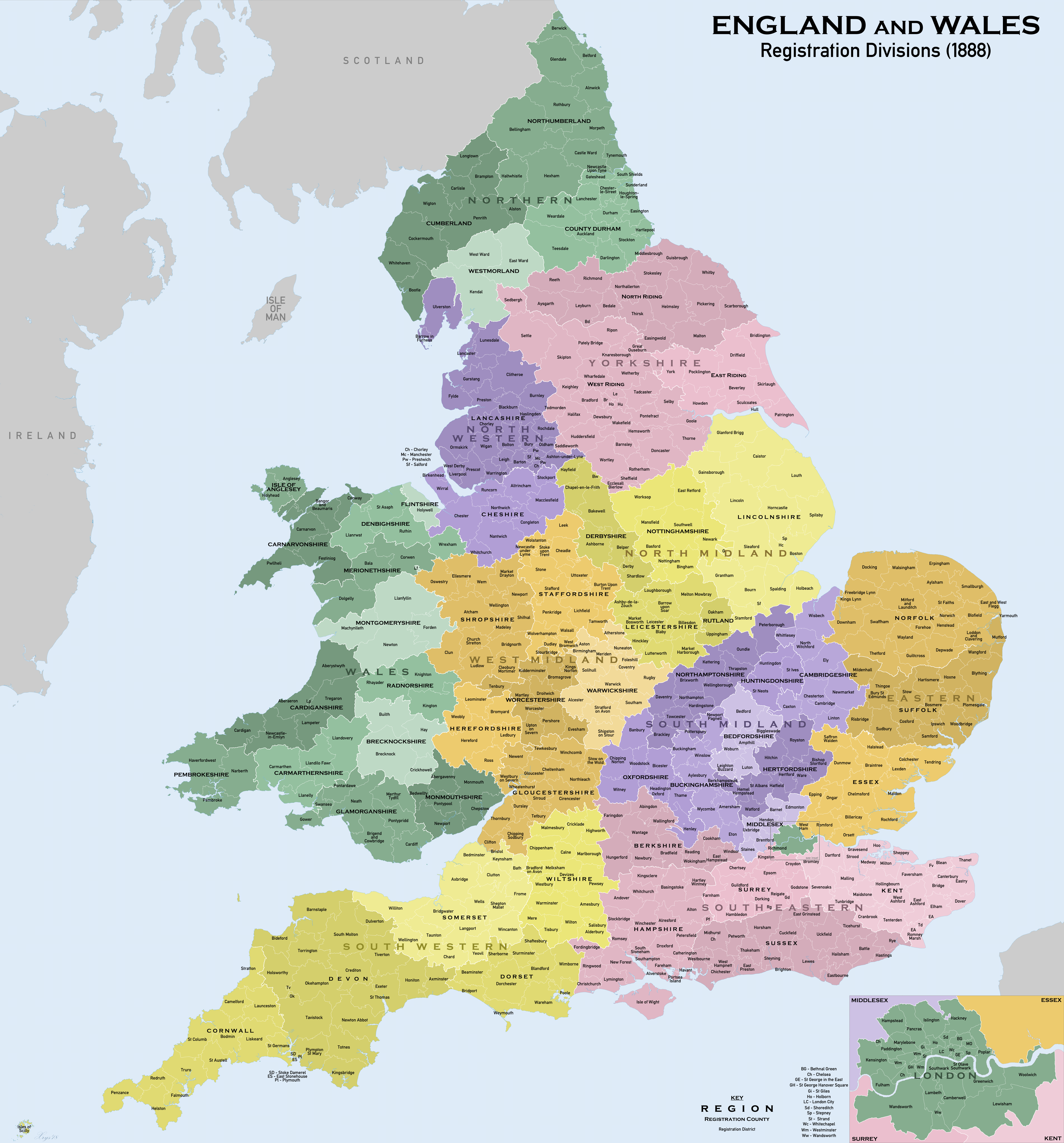 Map showing the Registration Divisions of England and Wales in 1888. Source data: Parish boundaries - Kain, R.J.P., and Oliver, R.R. (2001) "Historic parishes of England and Wales". Divisions: "Ordnance Survey Sanitary Districts showing Parishes (and Unions) 1888, Unit Data - Vision of Britain Website.